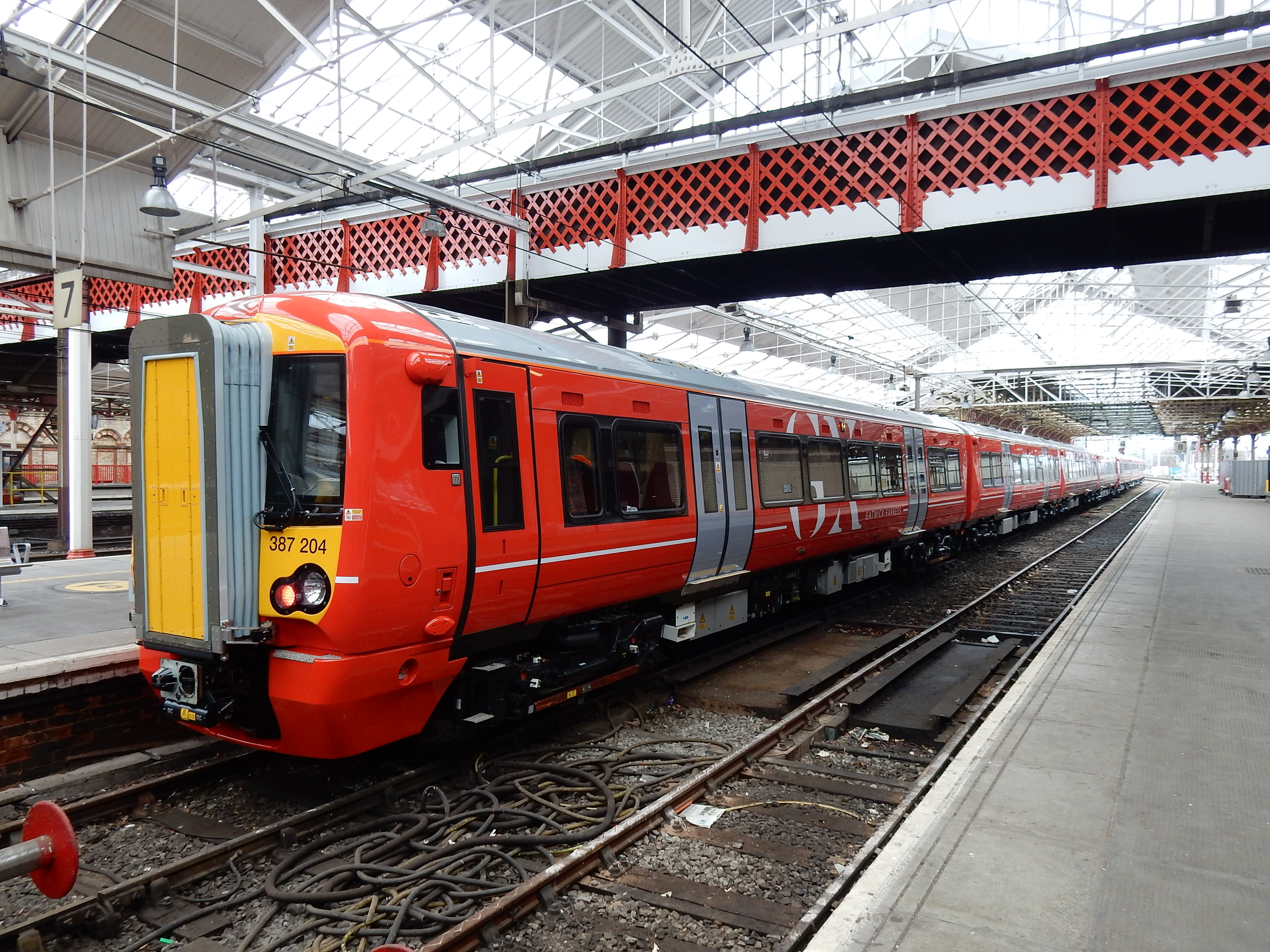 Class 387/2 unit 387204 at Crewe platform 7 in Gatwick Express livery